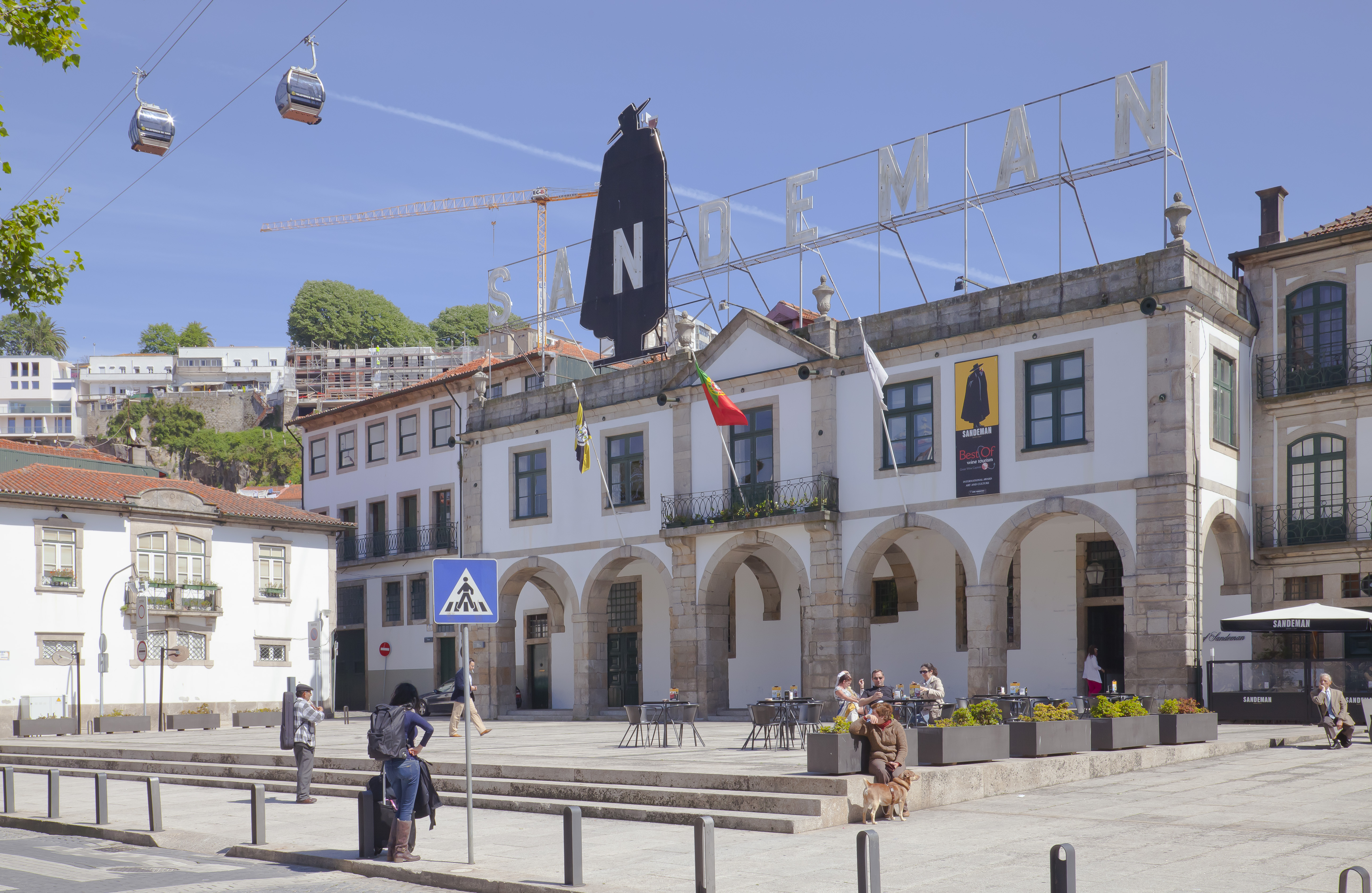 Sandeman cellar, Vila Nova de Gaia, Portugal